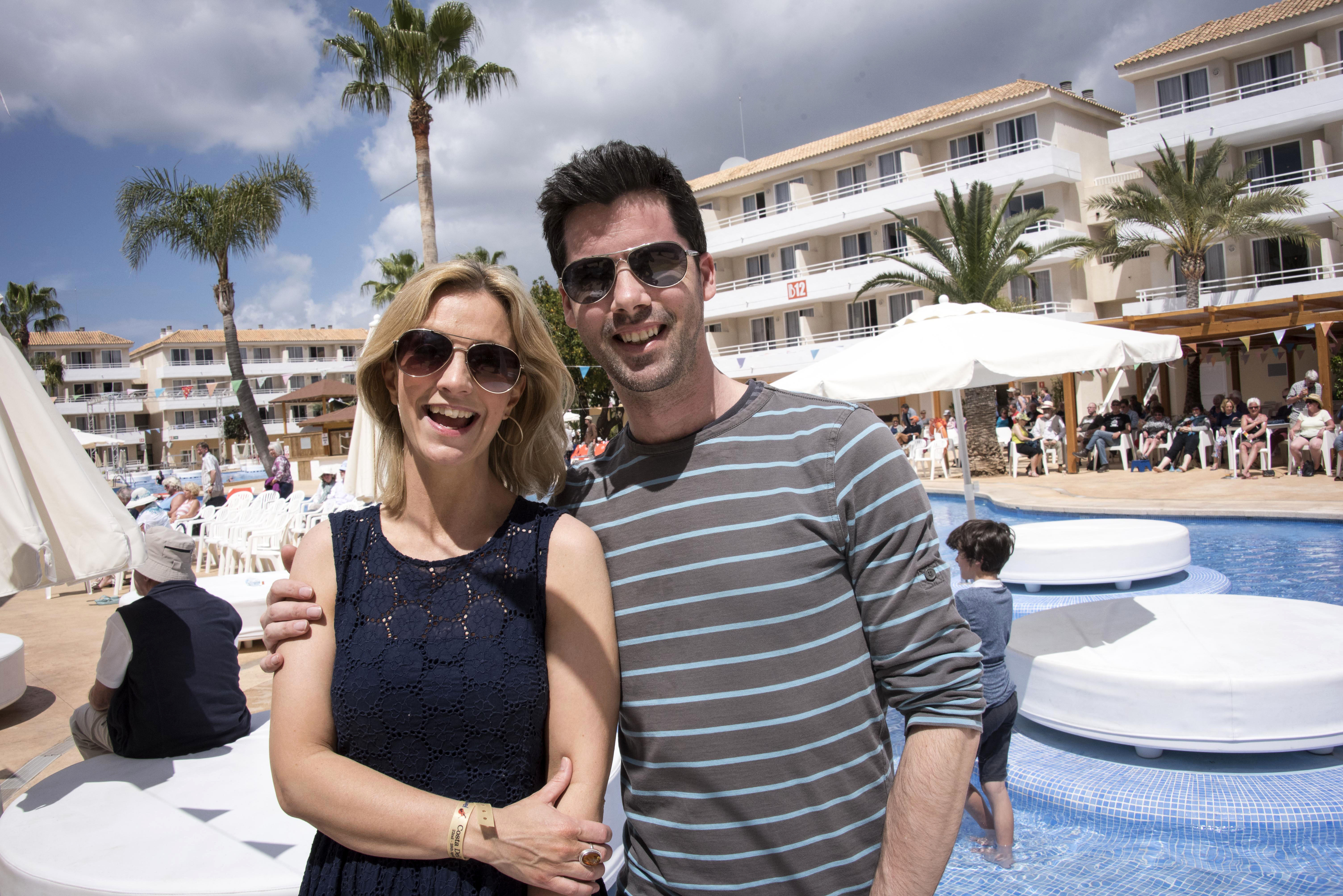 Costa del Folk festival in Mallorca 2016